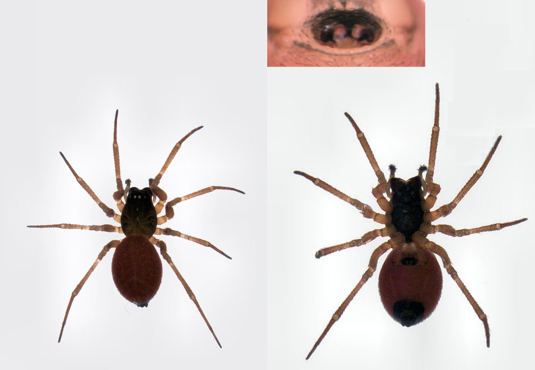 adult female Ostearius melanopygius (after 1 day in ethanol)